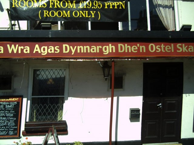 Cornish can be seen in many places in Cornwall. A poor quality image.